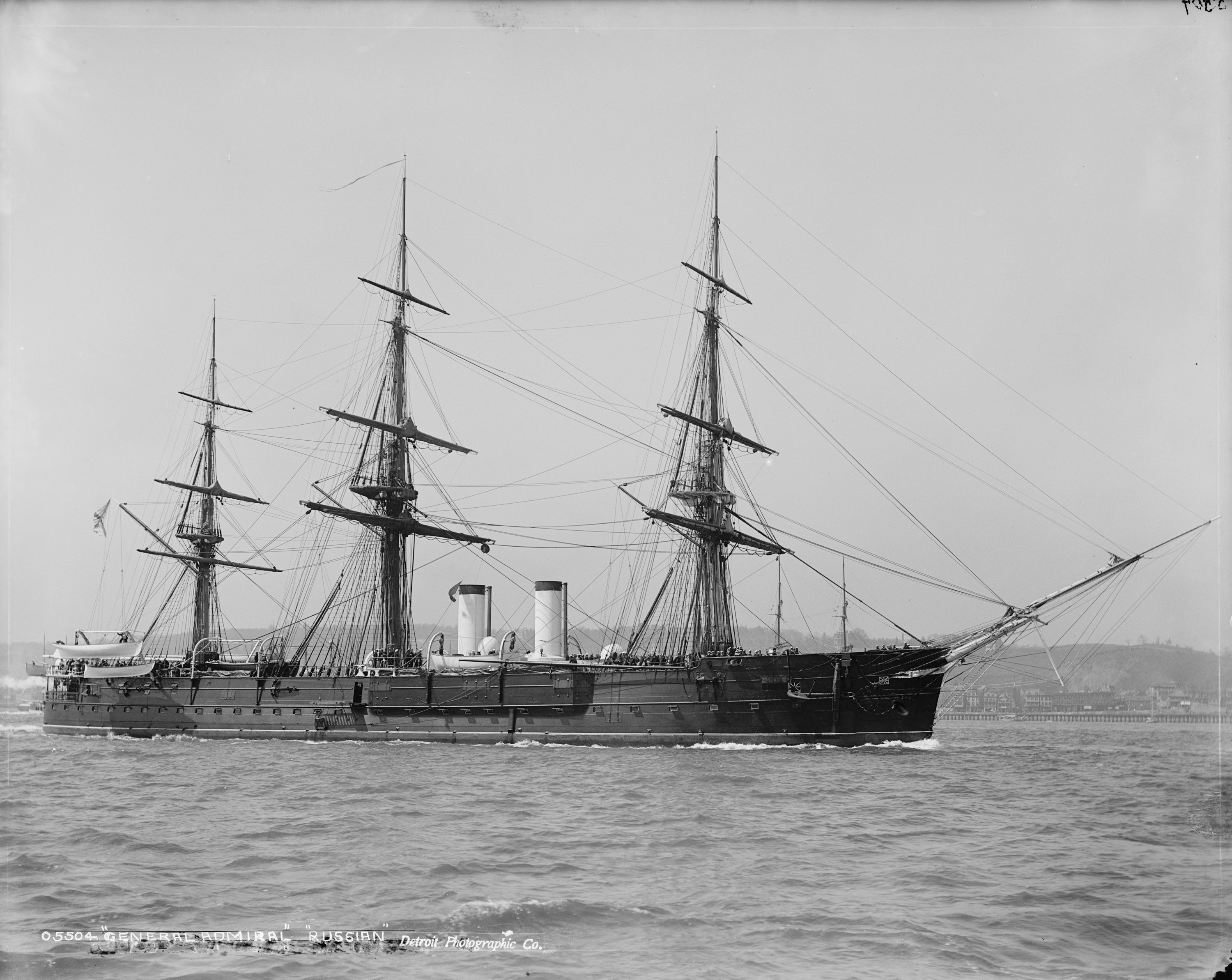 The Imperial Russian crusier «General-Admiral» in New-York, 27 April 1893.